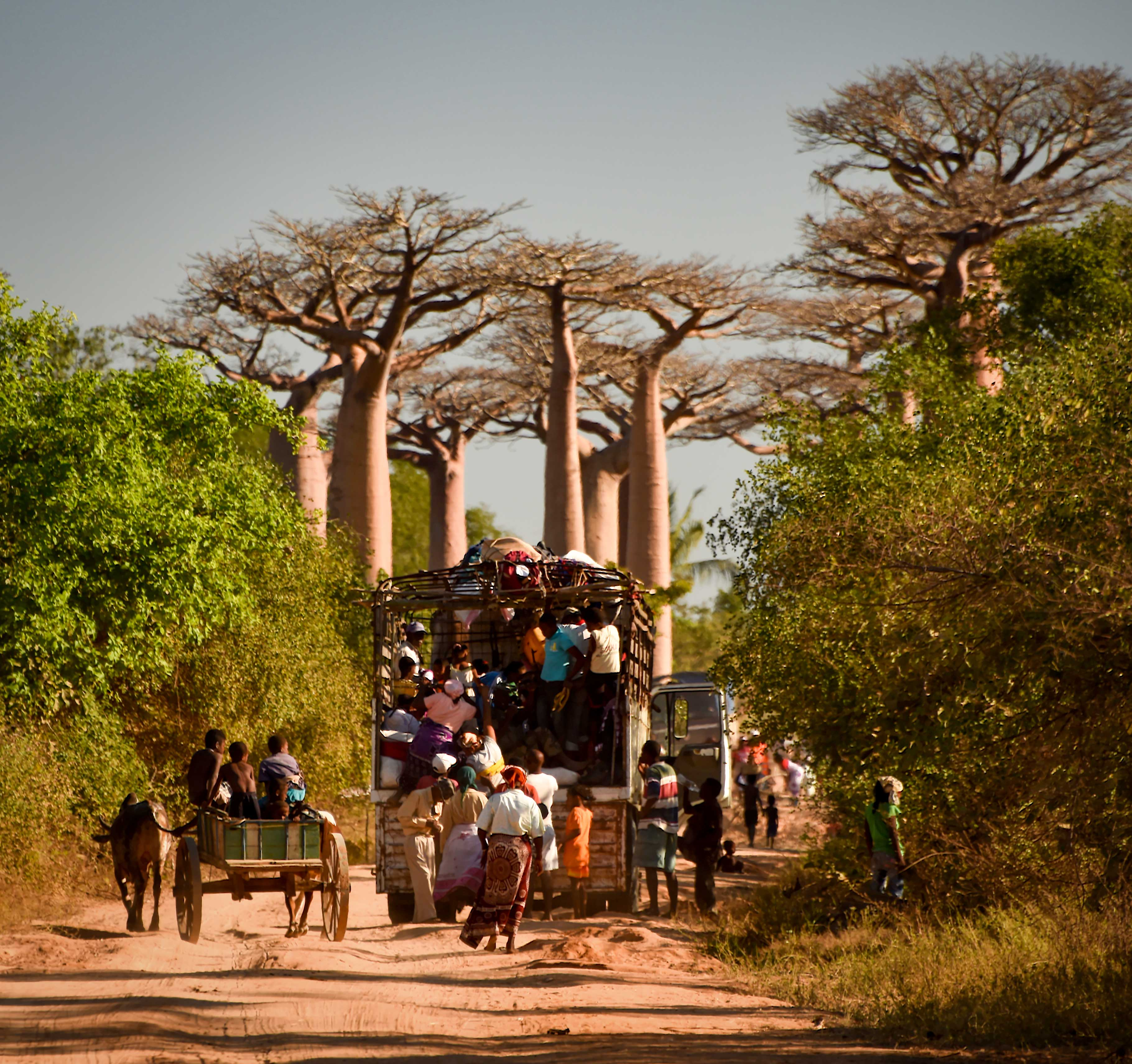 Madagascar